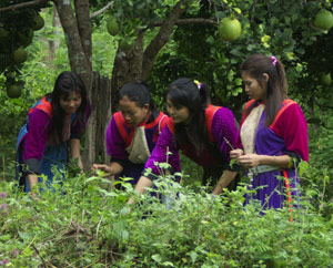 Lisu Ladies from Northern Thailand photo by ShahJahan